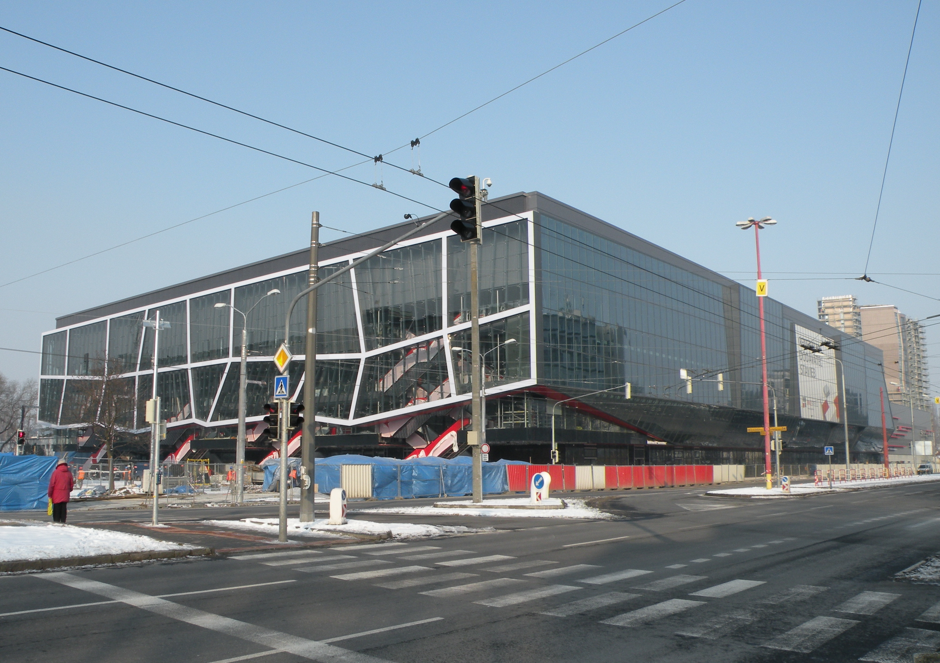 Bratislava Ondrej Nepela Ice Hockey Stadium